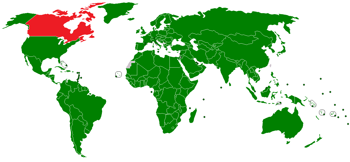 State parties to United Nations Convention to Combat Desertification.